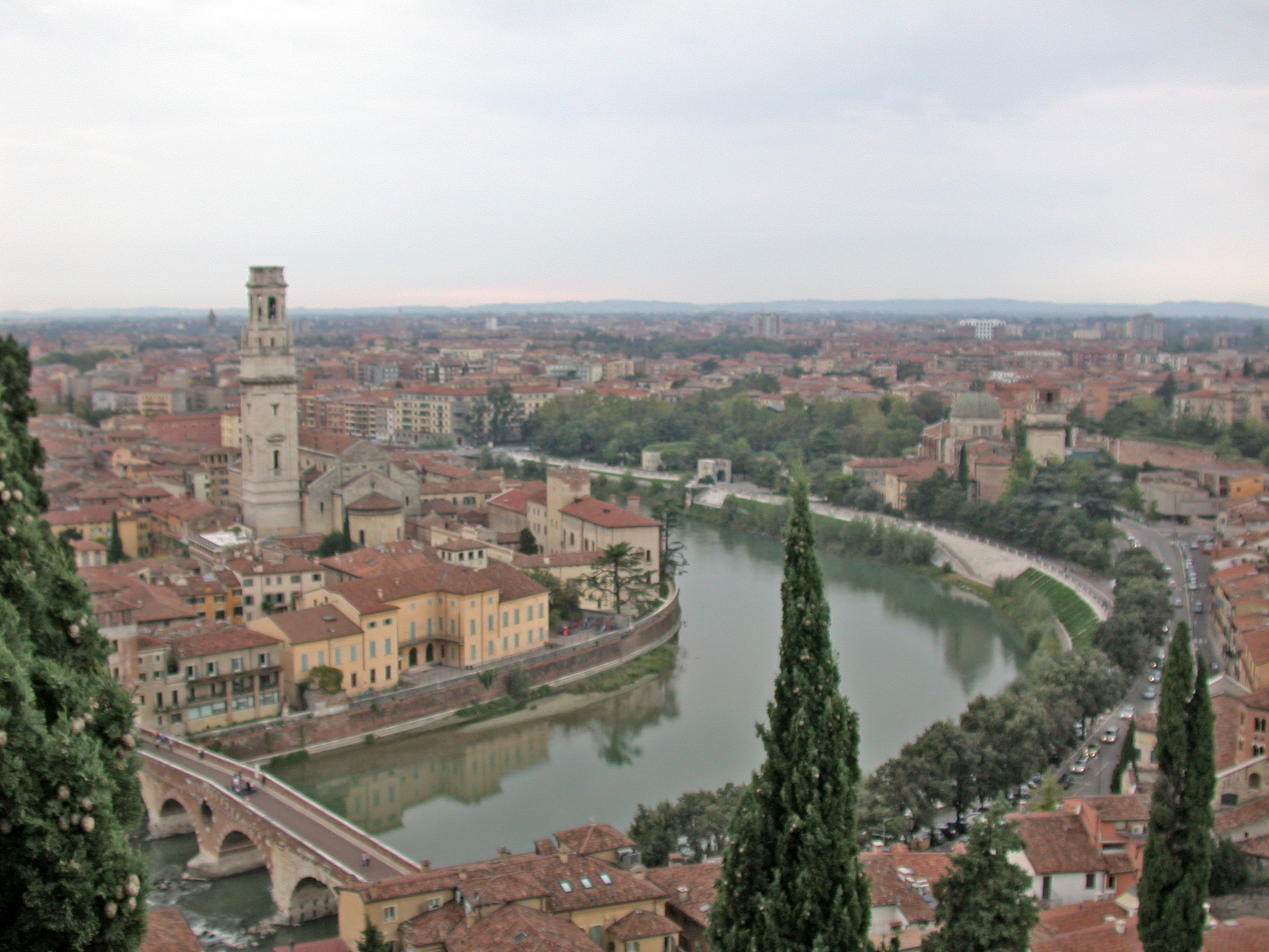 Verona, general view from Castel San Pietro. On the left: Ponte Pietra and the duomo On the right the church of San Giorgio in Braida